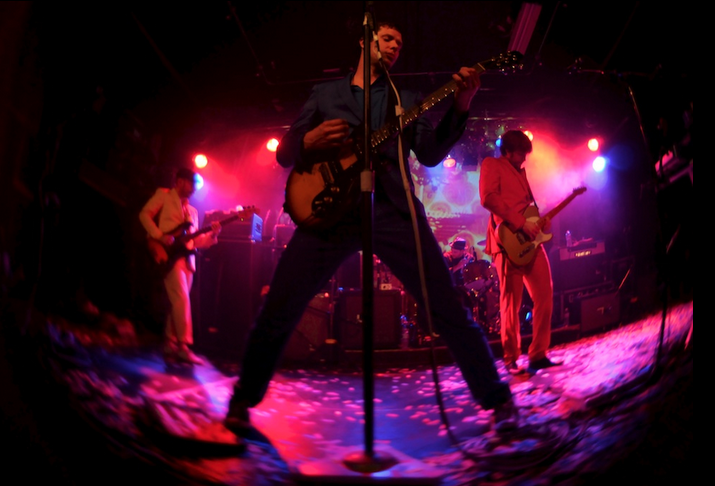 OK Go, Company of Thieves, and Summer Darling at Capital Music Hall in Ottawa